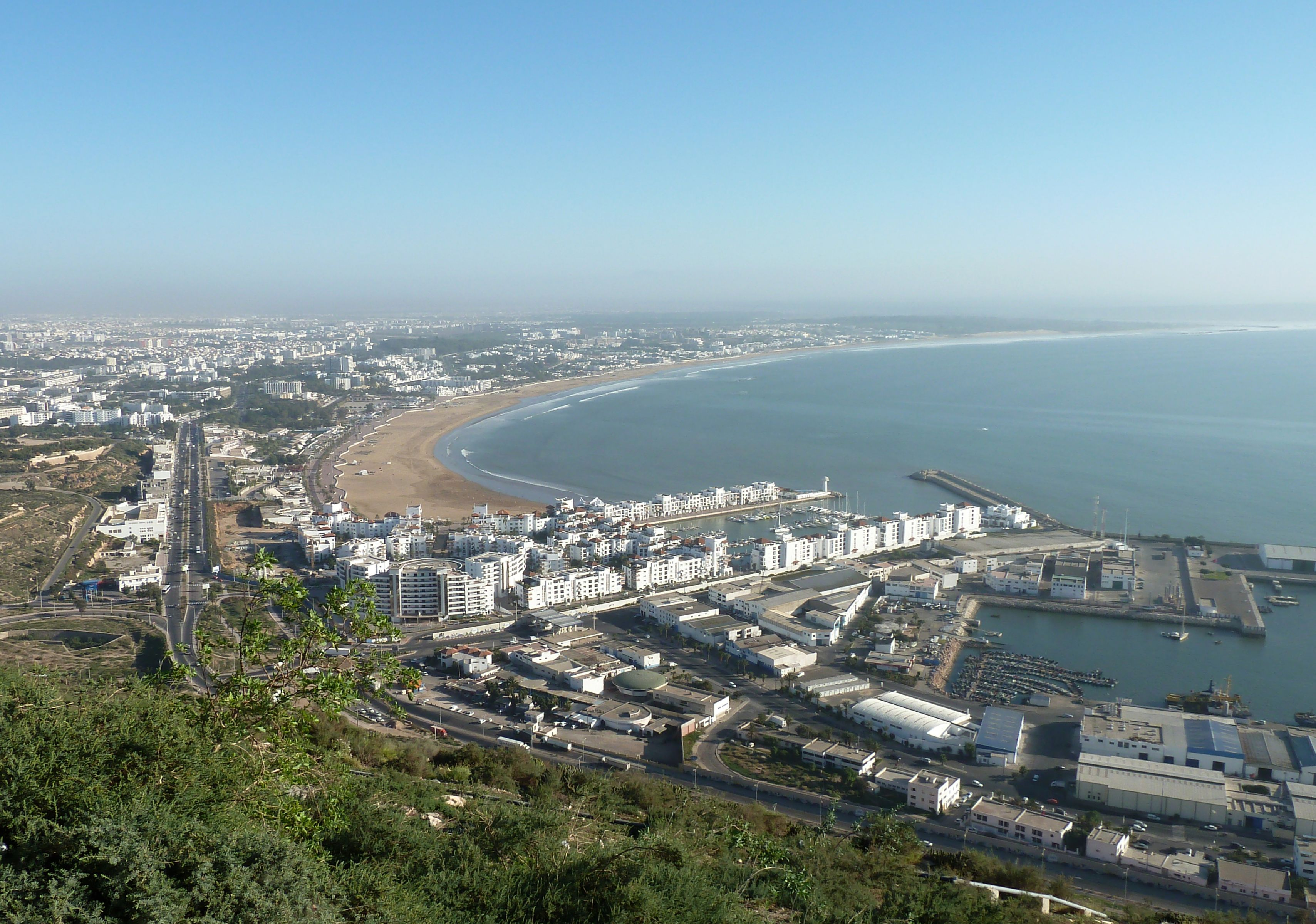 View form the Kasbah